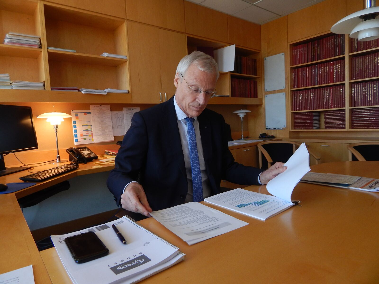 Dr. Hofman at work in his office at the Harvard T.H. Chan School of Public Health